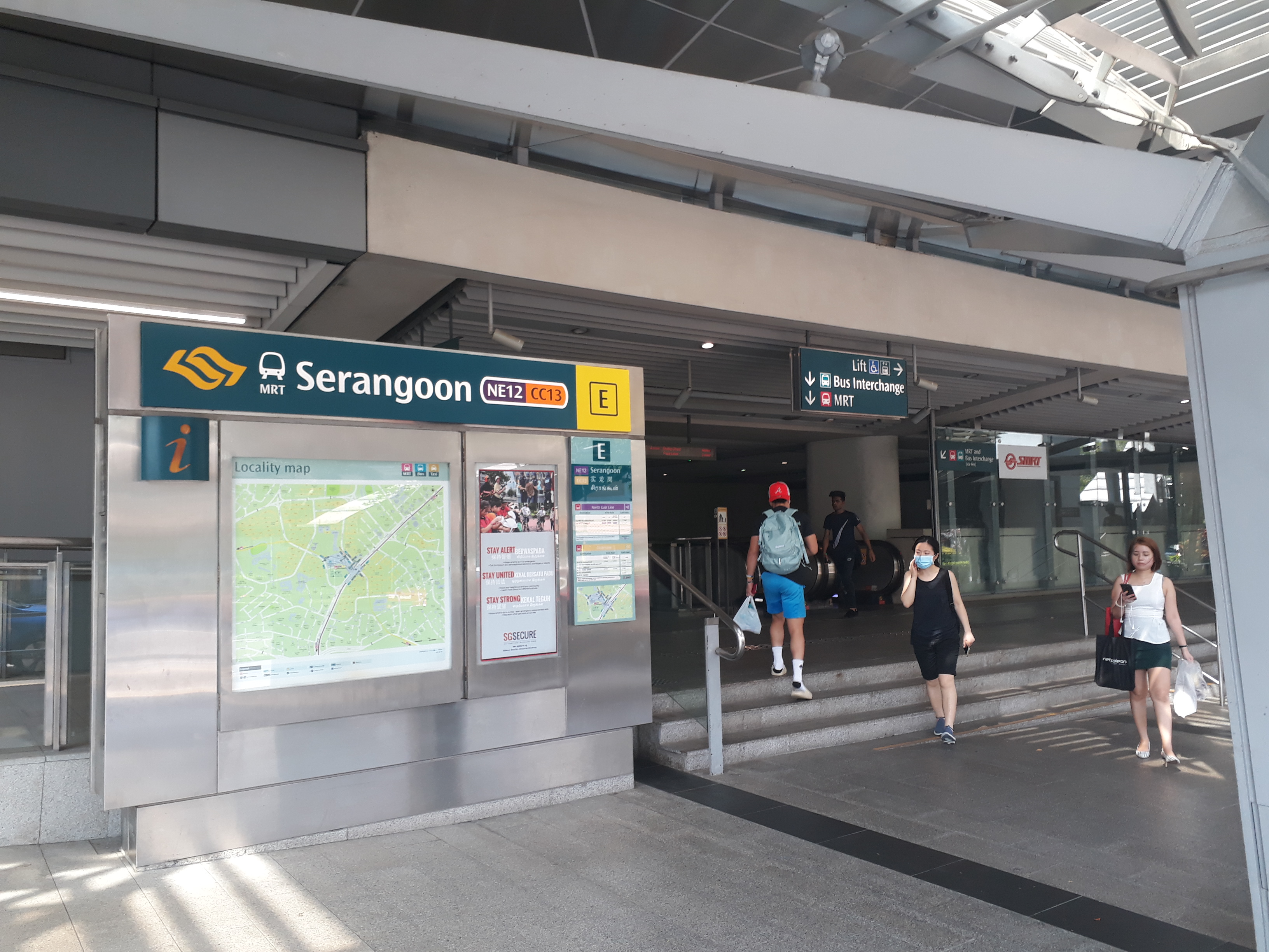 Exit C of Serangoon MRT